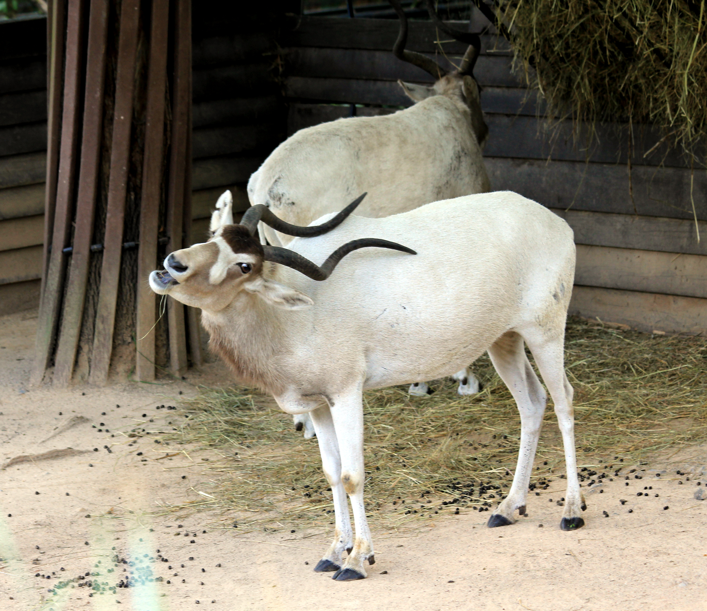 Addax (Addax nasomaculatus) in Prague Zoo, Czech Republic